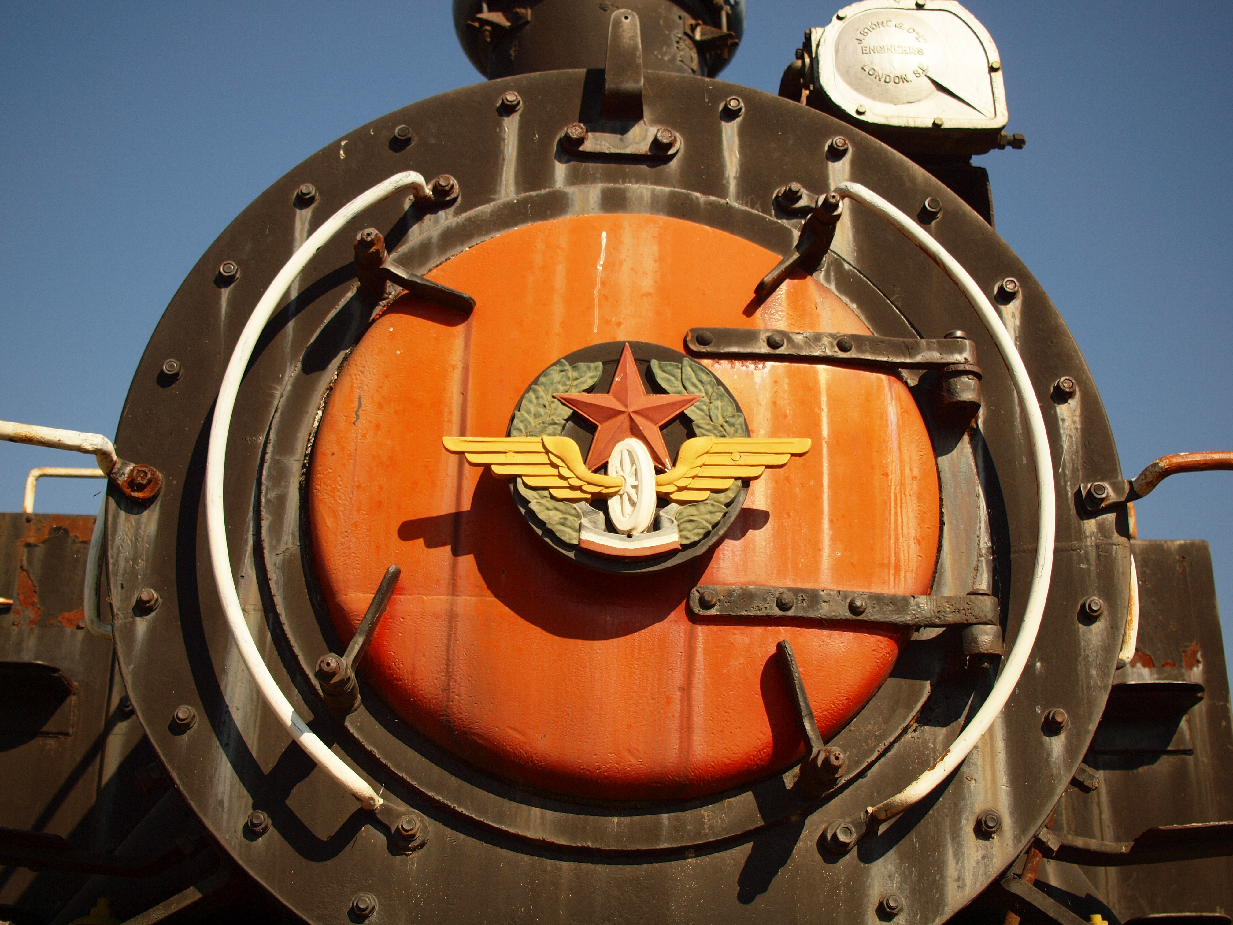 Former logo of Yugoslav railways steamlocomotive Ruma